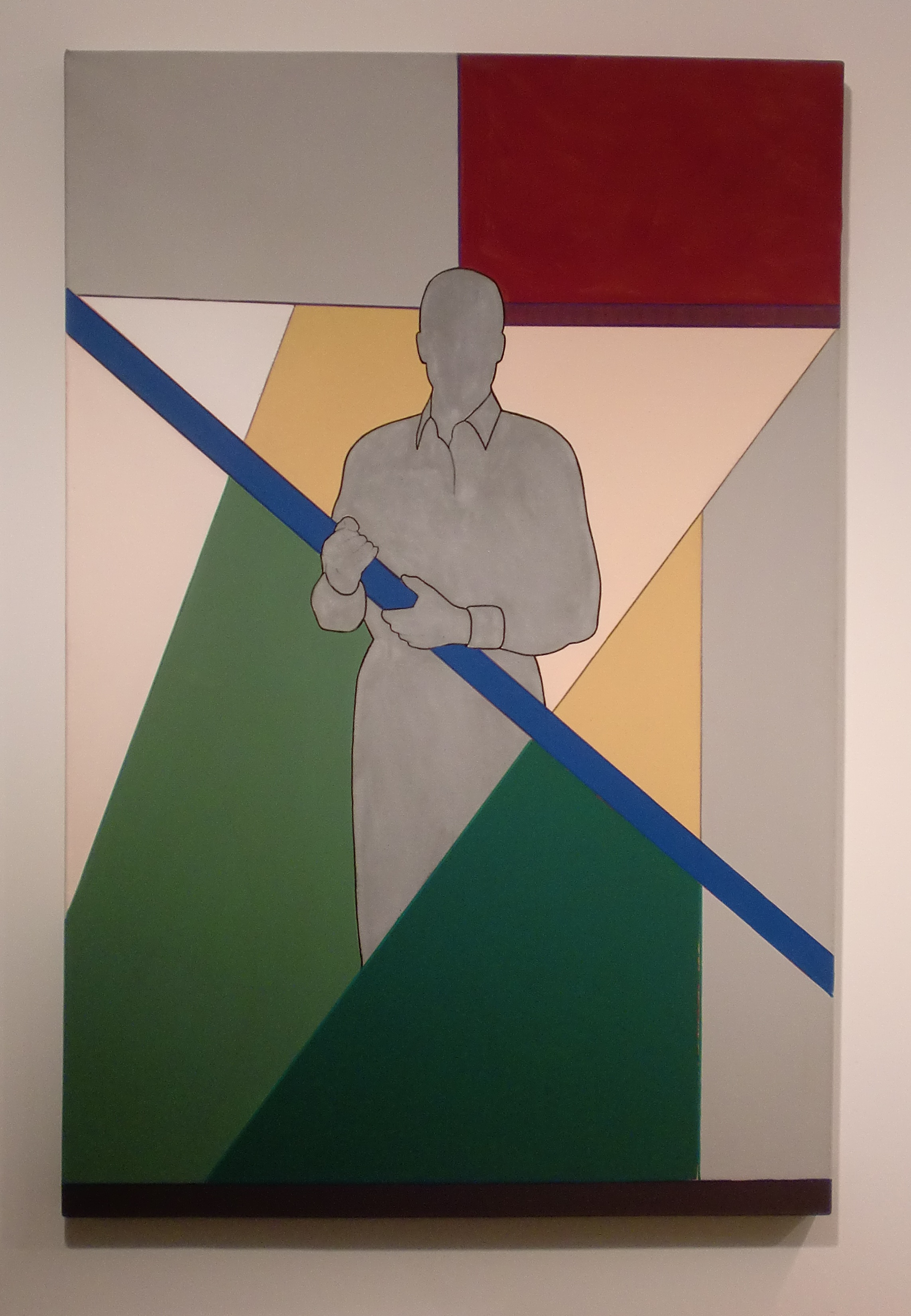 Renato Mambor oil